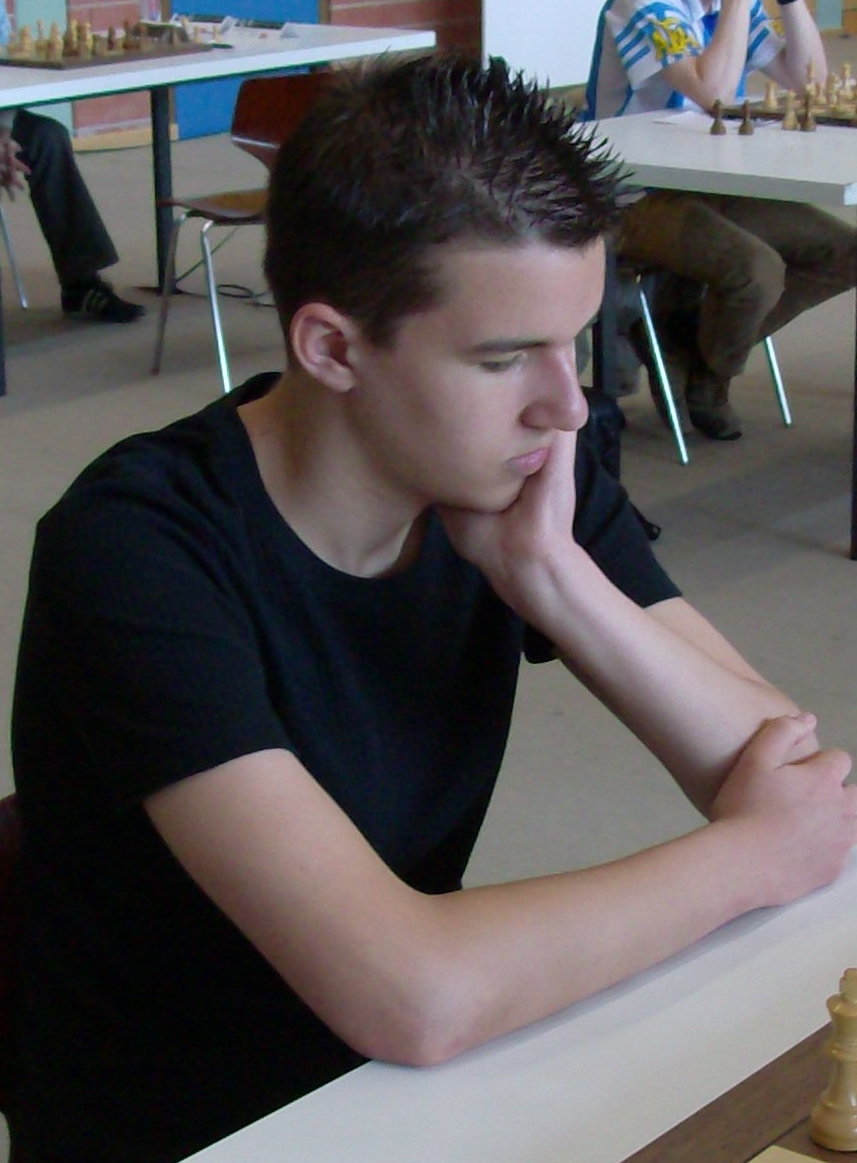 Sébastien Feller, chess grandmaster from France